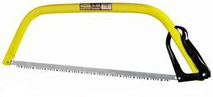 Pruning bow saw